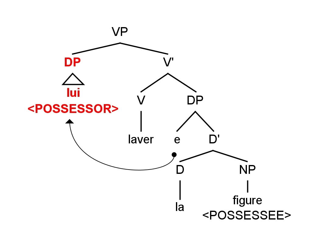 Example illustrating possessor-raising in French. Tree diagram created in Treeform. The sentence itself is adapted from: Guéron, Jacqueline (2007). "Inalienable Possession". In Everaert, Martin; van Riemsdijk, Henk. The Blackwell Companion to Syntax. Malden, MA: Blackwell Publishing Ltd. p. 611, example (100b)